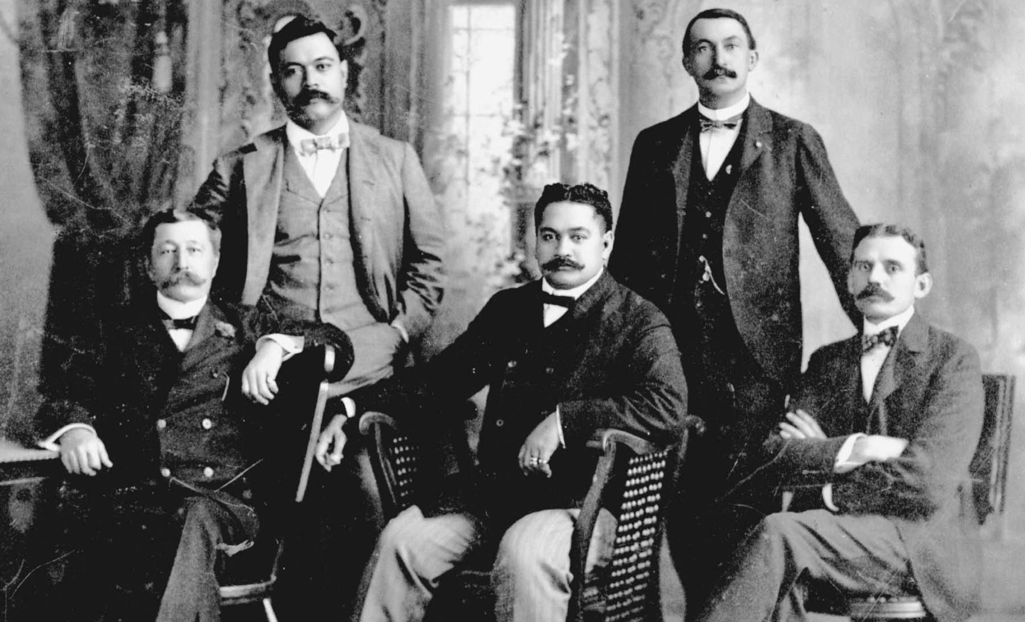 William H. Cornwell, John Wise, David Kawānanakoa, John Dominis Holt II and Clarence W. Ashford (left to right) in San Francisco during their trip to the Democratic National Convention in Kansas City, 1900.